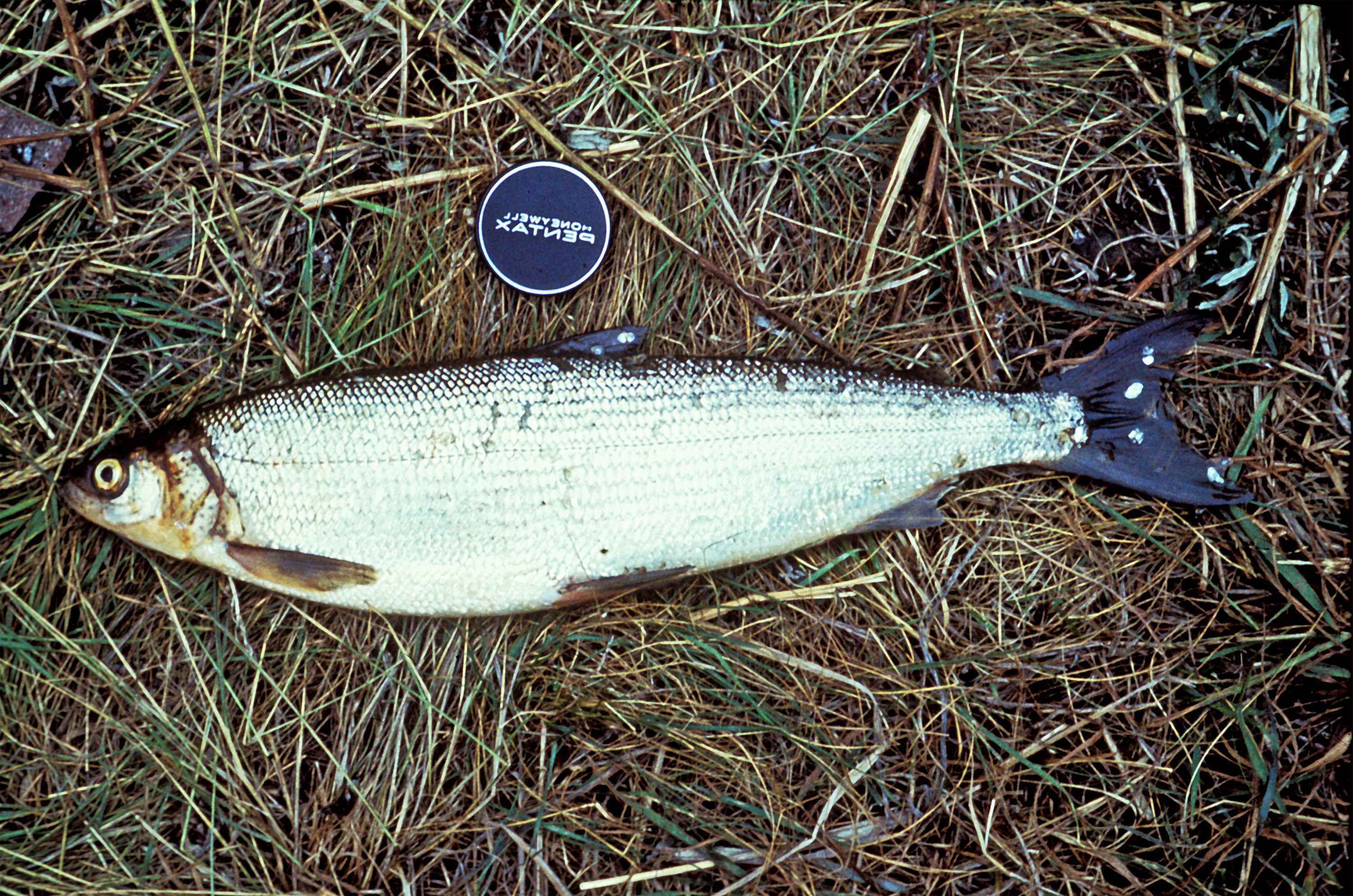 Image title: Least cisco fish on grass coregonus sardinella Image from Public domain images website